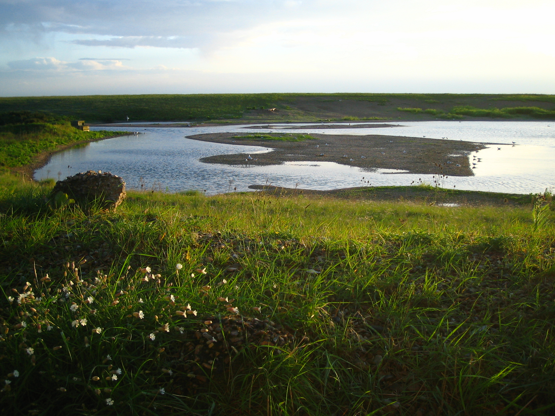 A view of the gravel pits that make up the RSPB Bird Reserve at Snettisham Beach